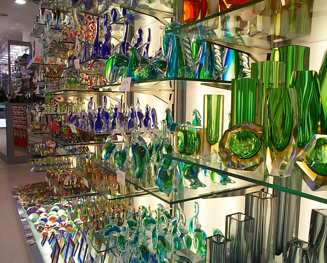 A decorative glass store in Rome, Italy.